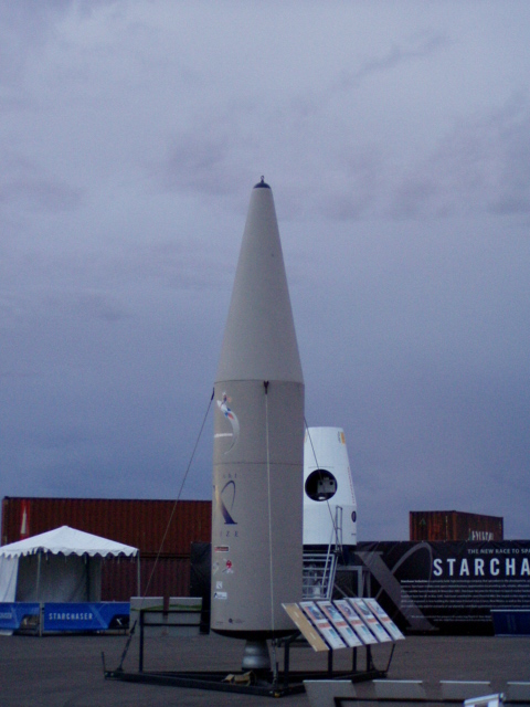 Mockup of an Armadillo Aerospace rocket